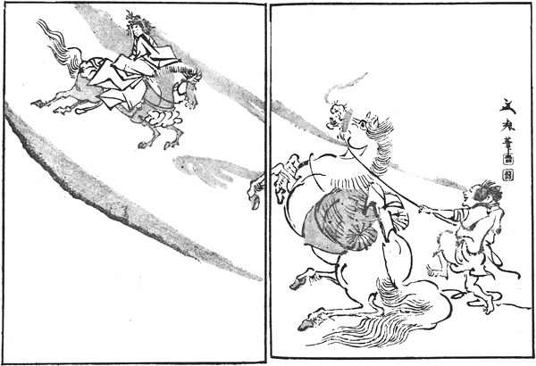 "Daiba" (頽馬, a kind of Kamaitachi) from the Shōzan chomon-kishuū (想山著聞奇集, the Japanese book)